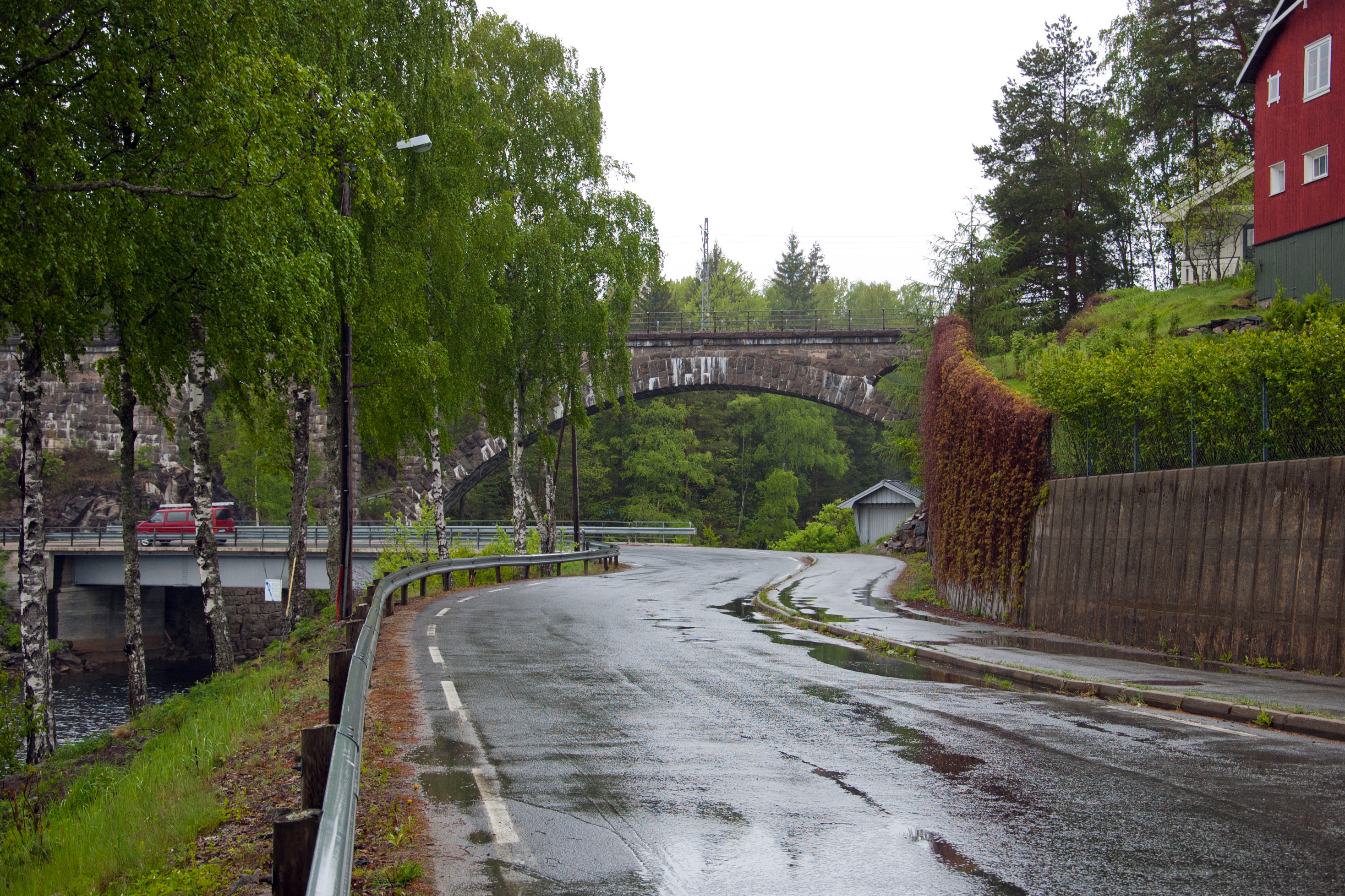 County road 109 Kjeåsen, Drangedal, Telemark, Norway